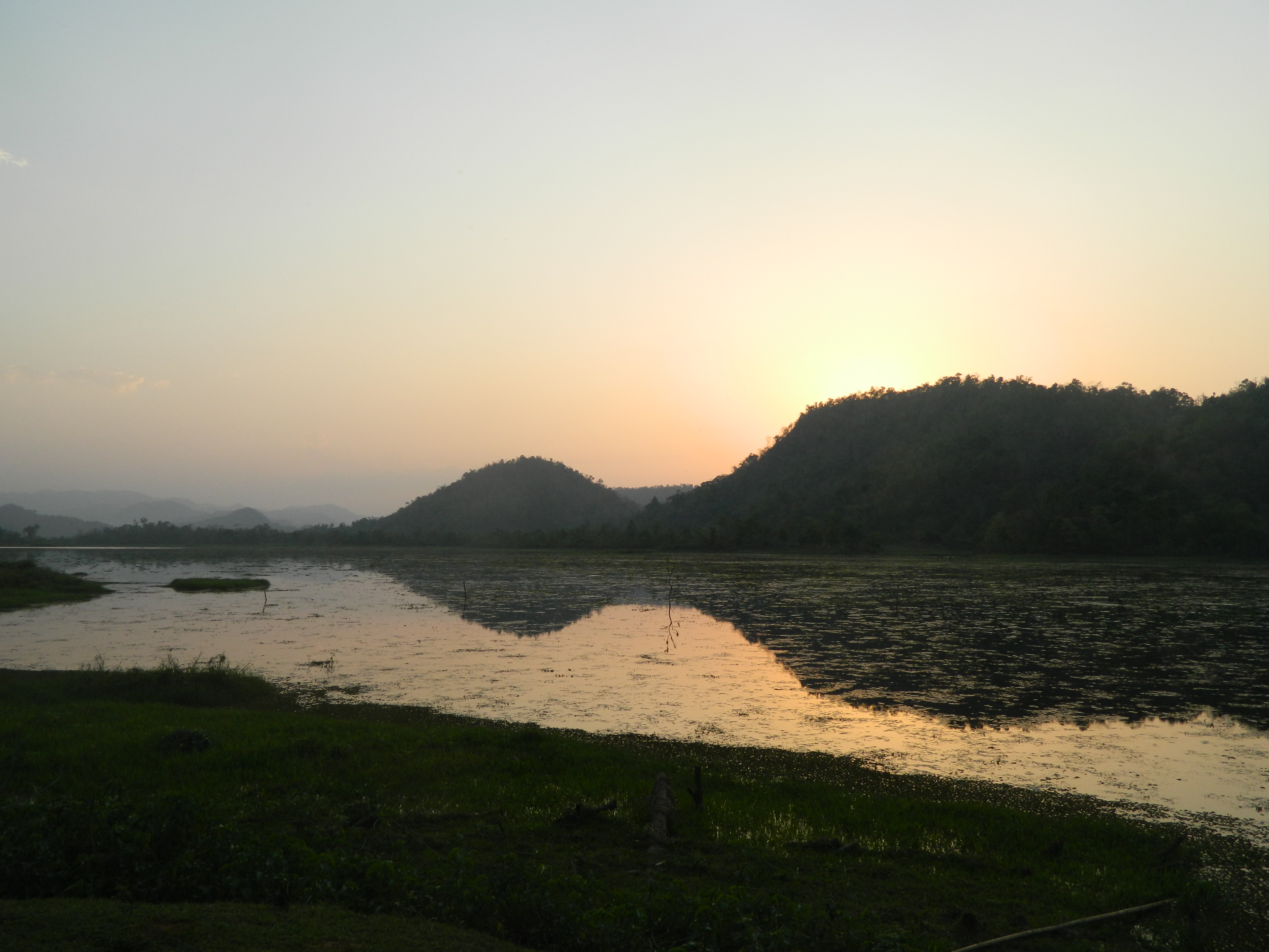 A tectonic Lake formed during 1897 Earthquake in Assam.